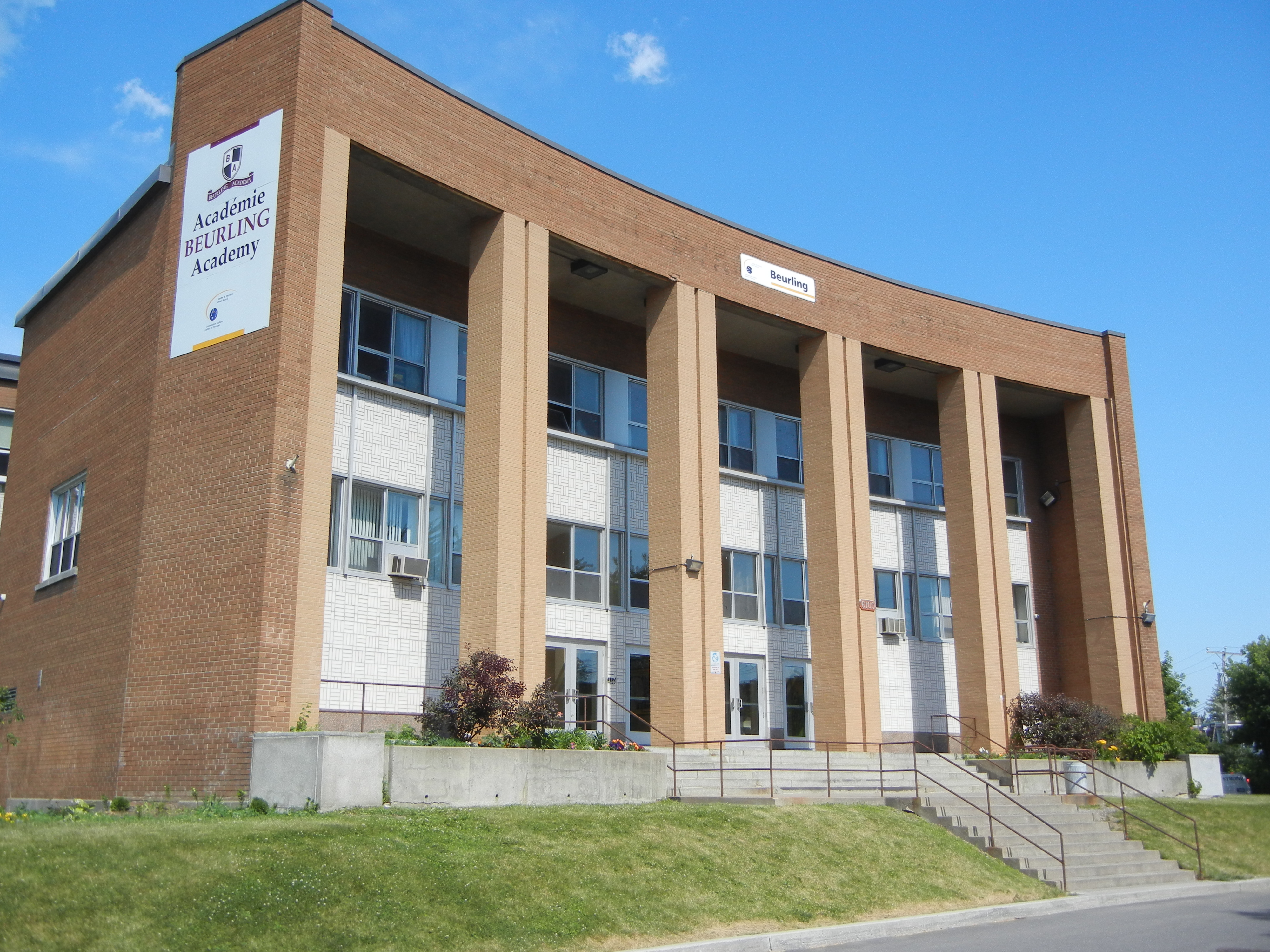 A photo of the main entrance to Beurling Academy, a high school in Verdun, Quebec, Canada.